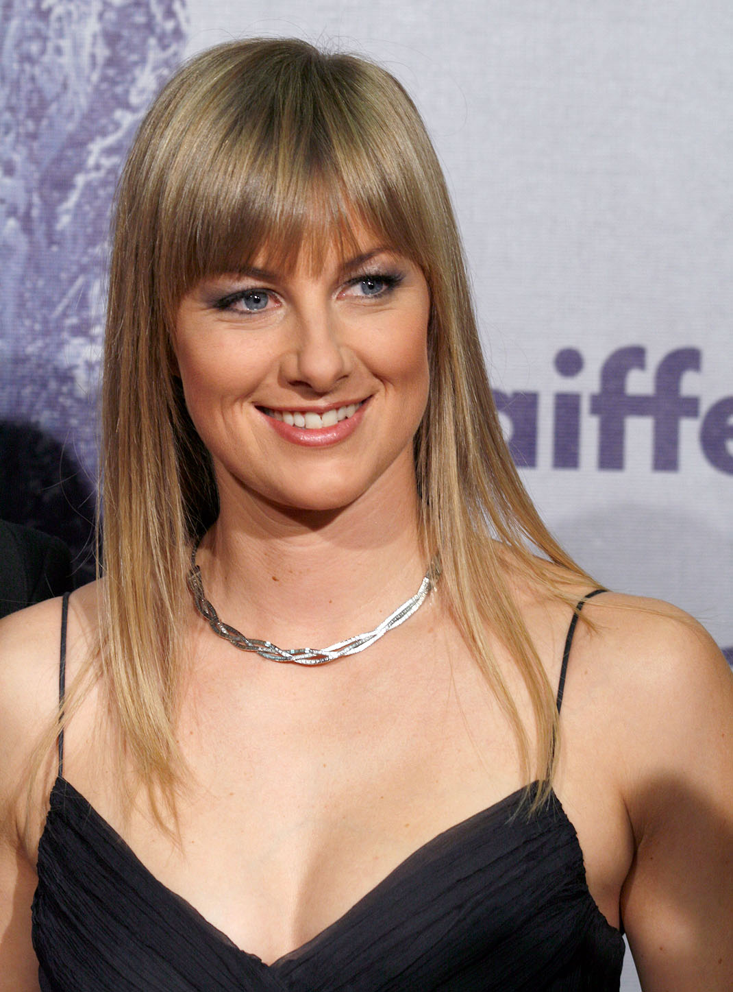 Doris Günther at the award show for the Austrian Sportspersonalities of the year 2009.